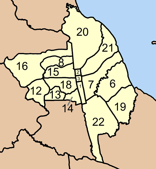 Map of Mueang Nakhon Si Thammarat district, Nakhon Si Thammarat province, Thailand, with the communes (tambon) numbered. {